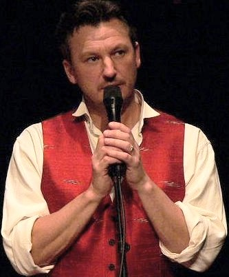 Anders Ekborg in concert 2009